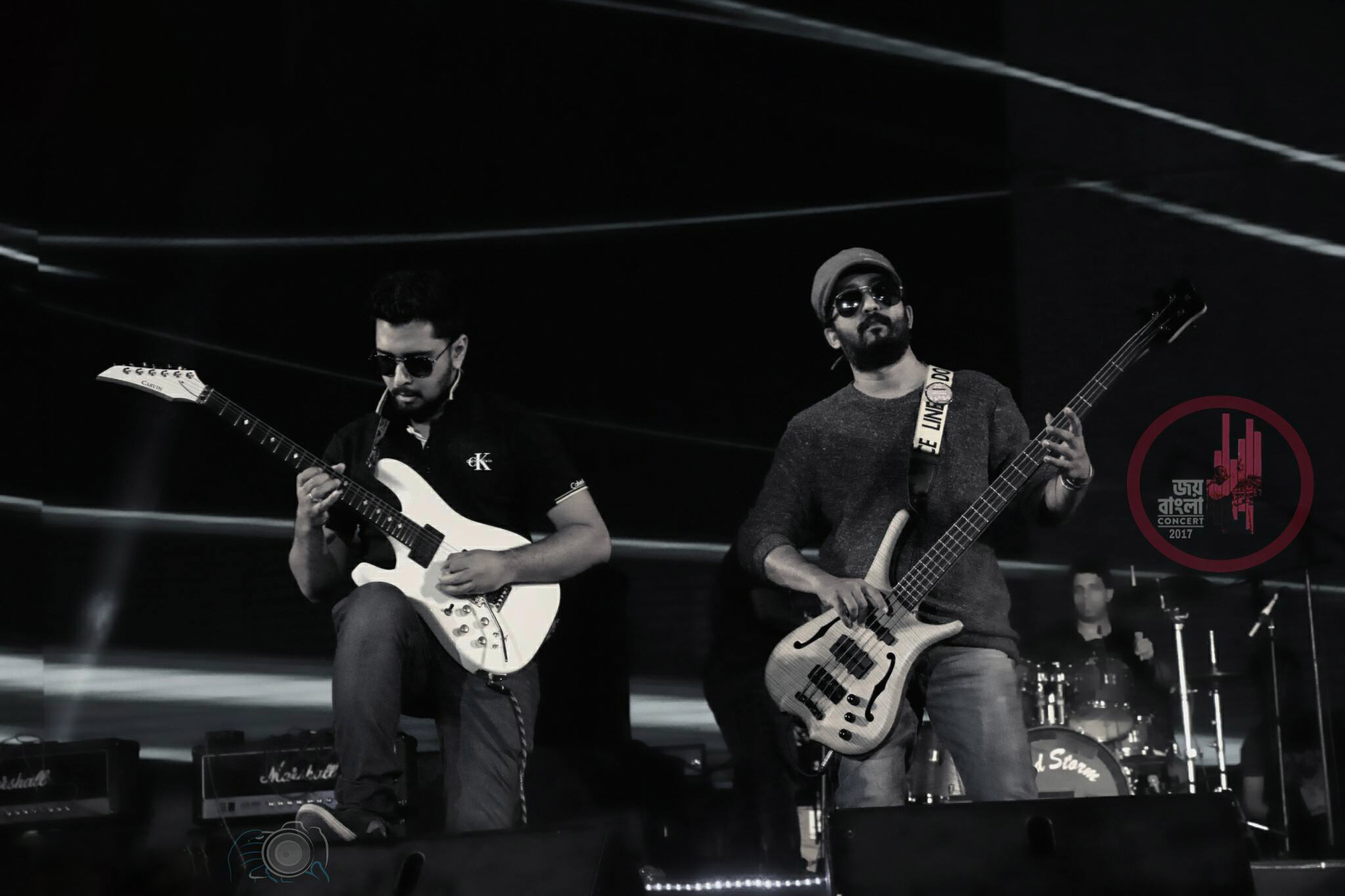 Diat Khan and Ziaur Rahman Zia, Shironamhin.